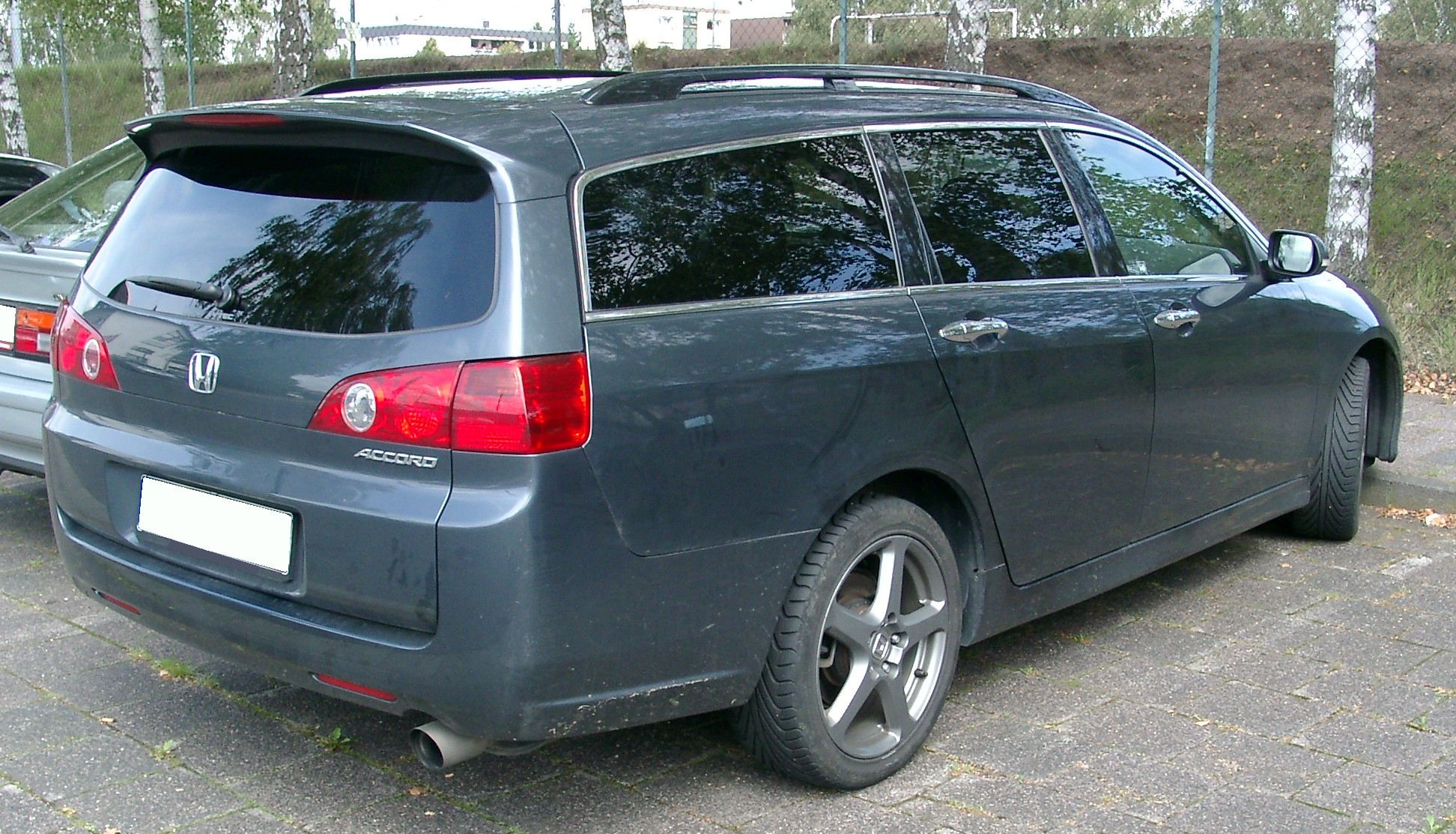 Honda Accord Tourer